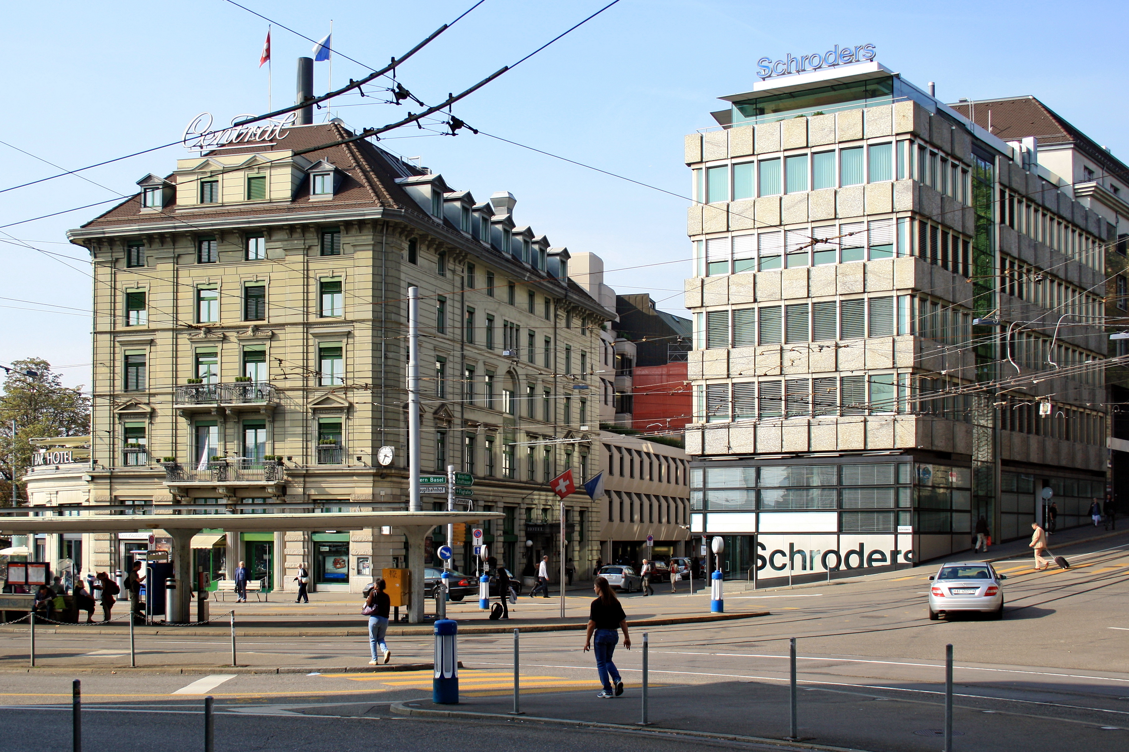 Central in Zürich (Switzerland) as seen from Seilergraben, Weinbergstrasse to the right, Stampfenbachstrasse on the left side of Hotel Central